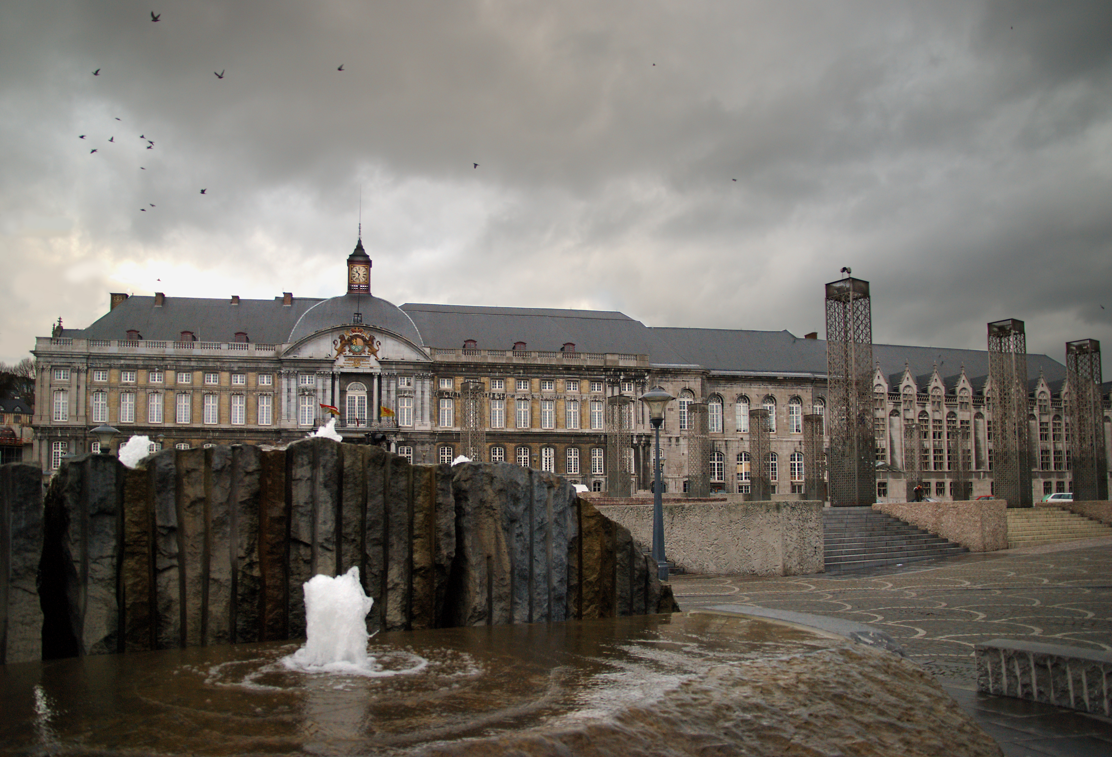 Liège in Belgium St-Lambert place.